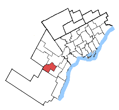 Map of the Mississauga—Streetsville electoral district. Based on Earl Andrew's maps, created by SimonP.